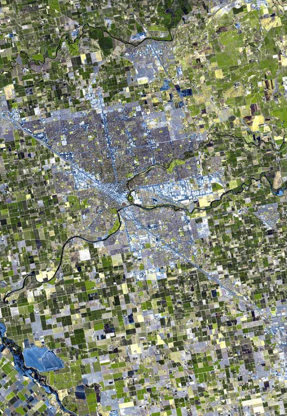 The raw satellite imagery shown in these images was obtain from NASA and/or the US Geological Survey. Post-processing and production by